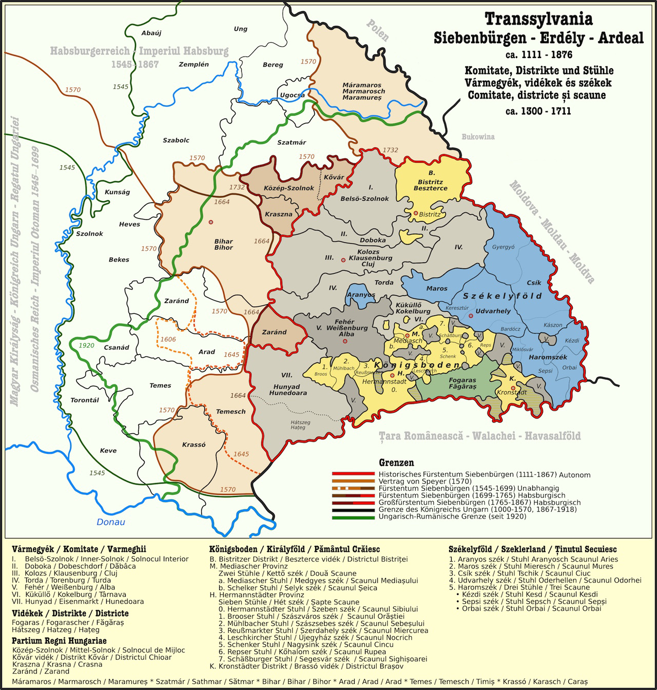 Administrative division of Transylvania, 1300-1867